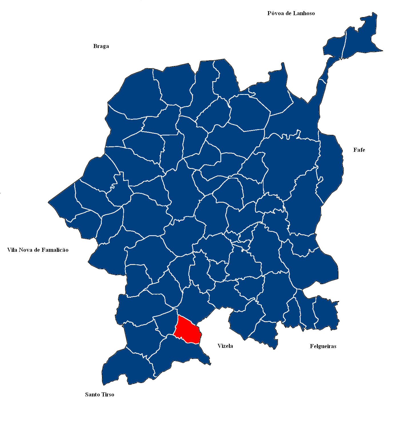 Map of Conde parish, Guimarães Municipality, Portugal